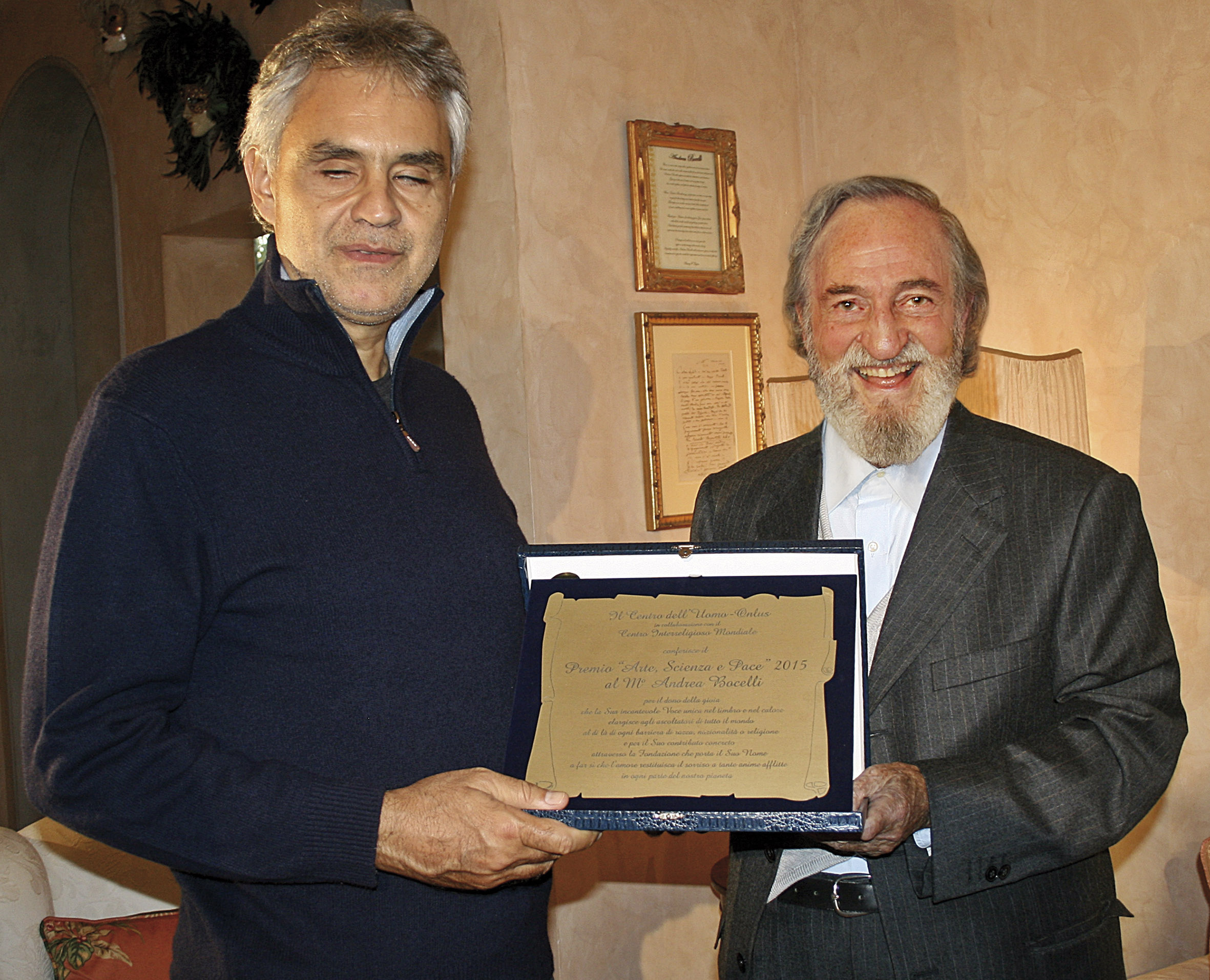 The three-year Art, Science and Peace Award. Prizegiving of 2015.